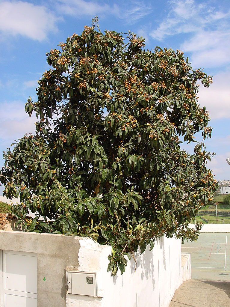 Loquat. Photo taken in Gran Canaria.